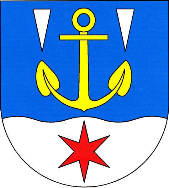 Coat of amrs of Županovice , District Příbram, Czech Republic